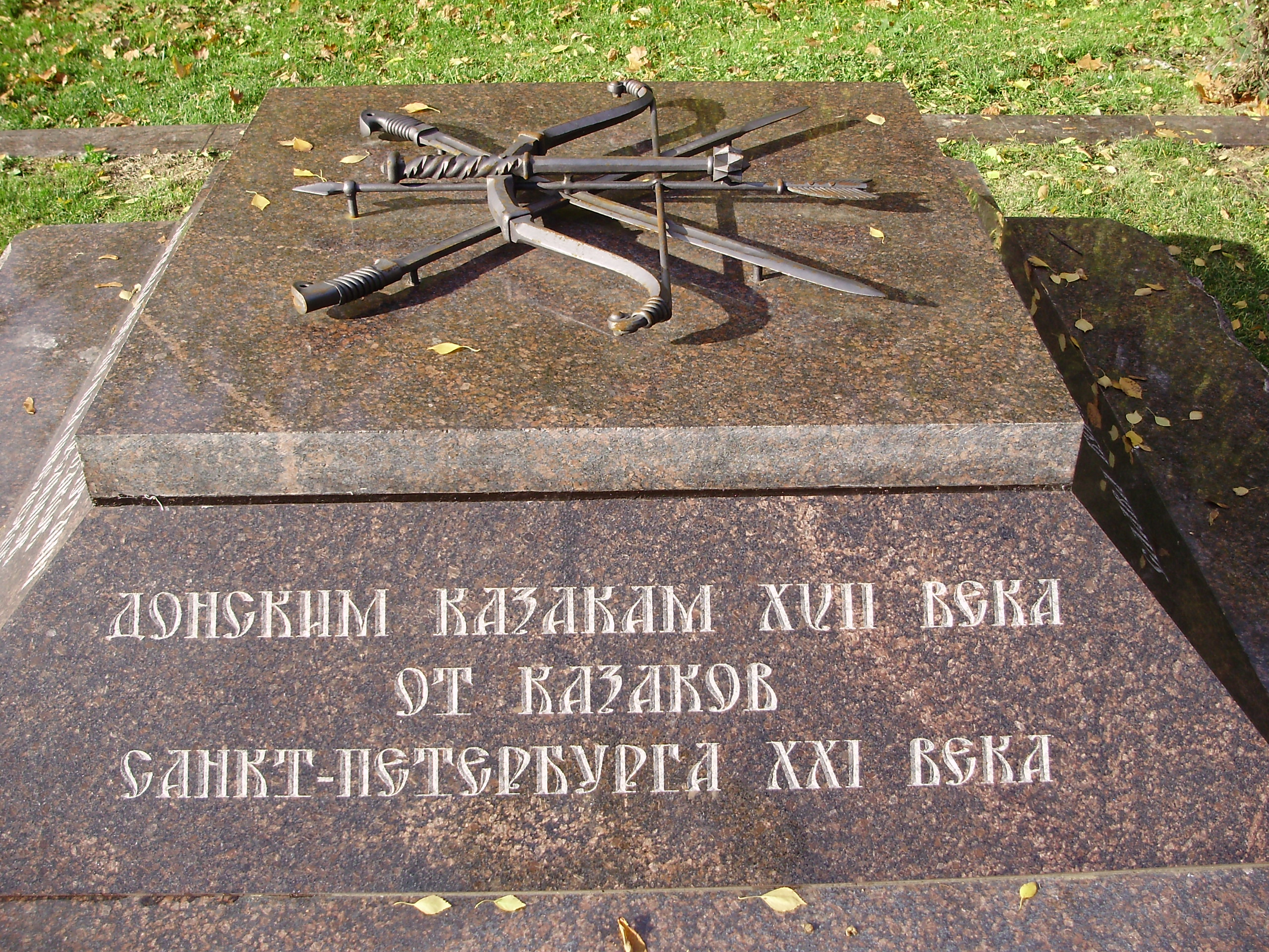 Don Cossacks Memorial in Kronstadt